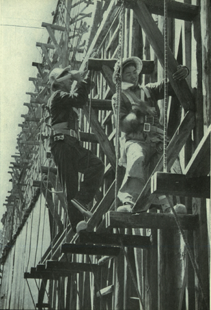 Foziling reservoir constrcuction field 佛子岭水库工地